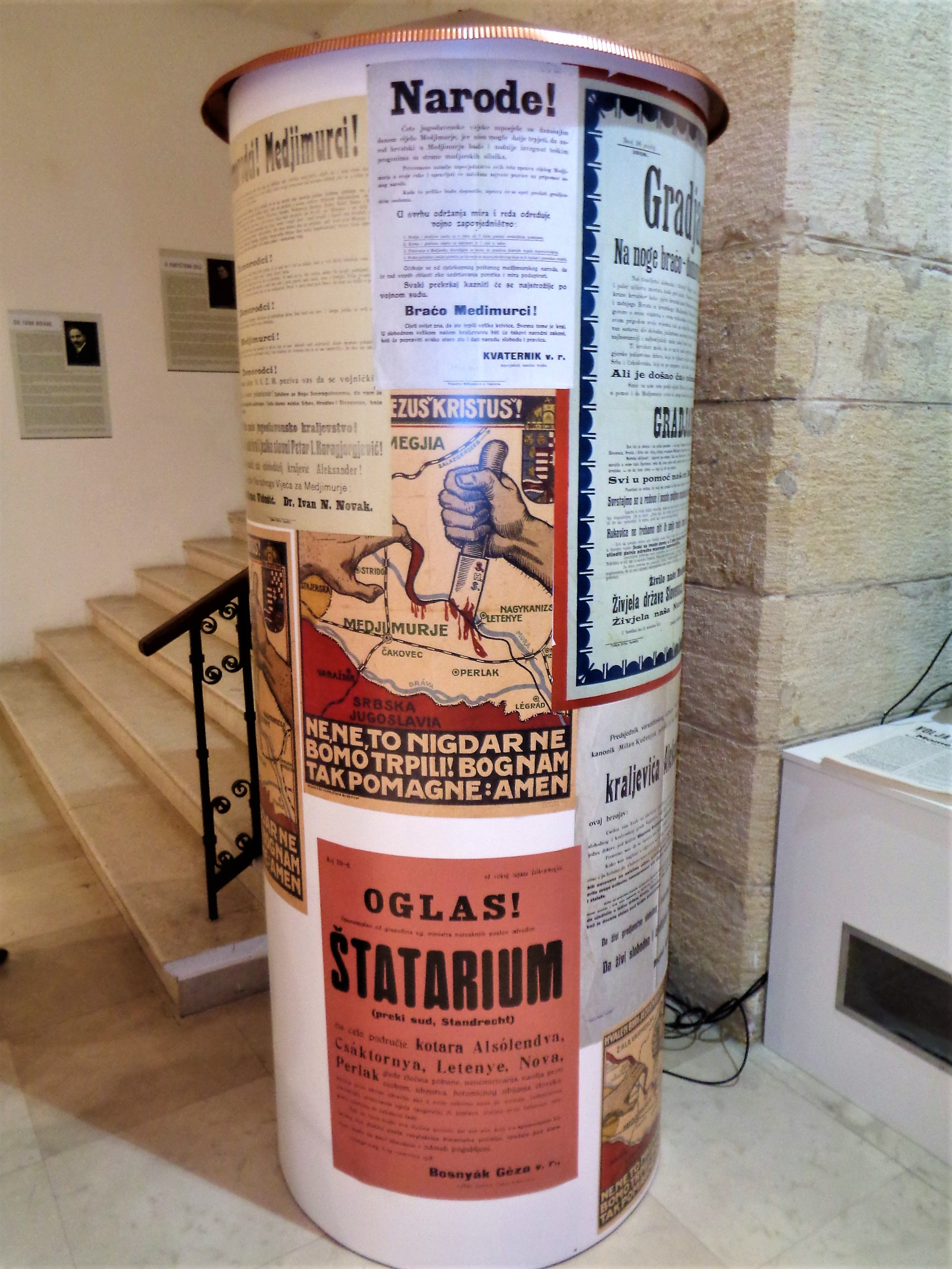 Medjimurje County Museum in Čakovec (Croatia) - advertising column at the exhibition of the 100th anniversary of the liberation of Medjimurie, northern Croatia, and separation from Hungary on 9th January 1919